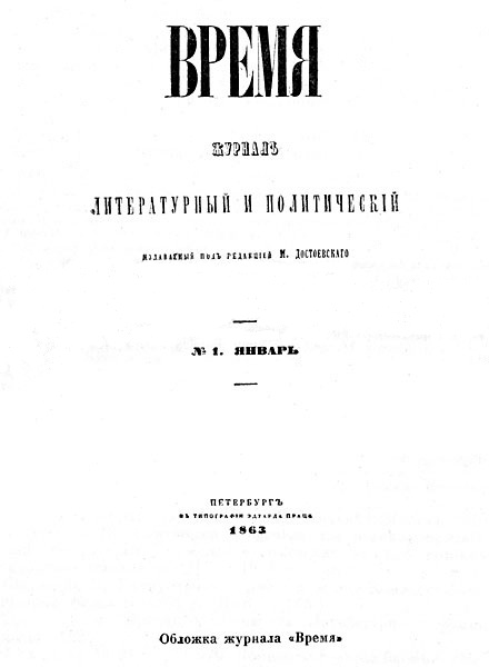 Vremya - 1863 edition of the journal Dostoevsky founded with his brother Mikhail.